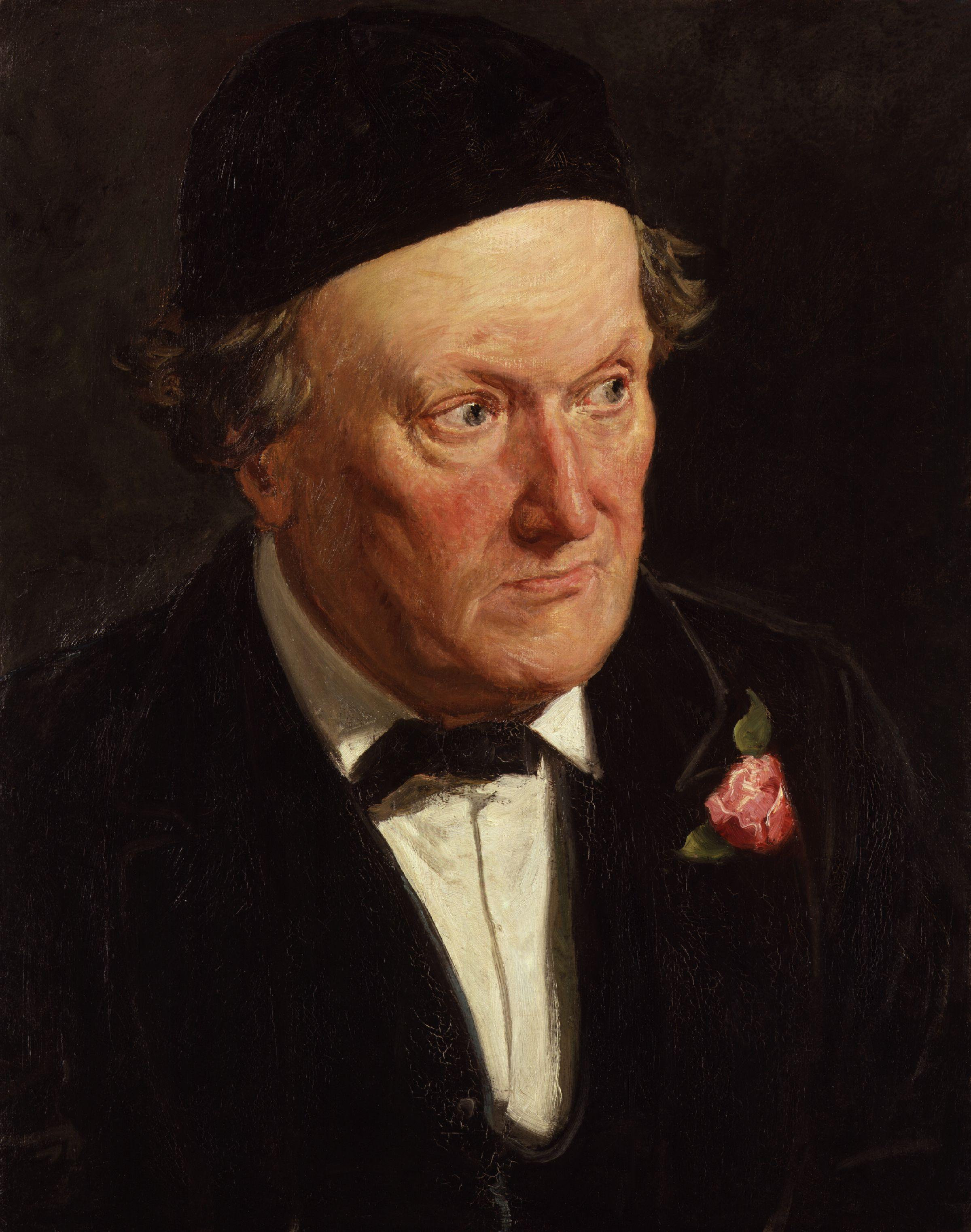 All images in this batch have a known author, but have manually examined for strong evidence that the author was dead before 1939, such as approximate death dates, birth dates, floruit dates, and publication dates.